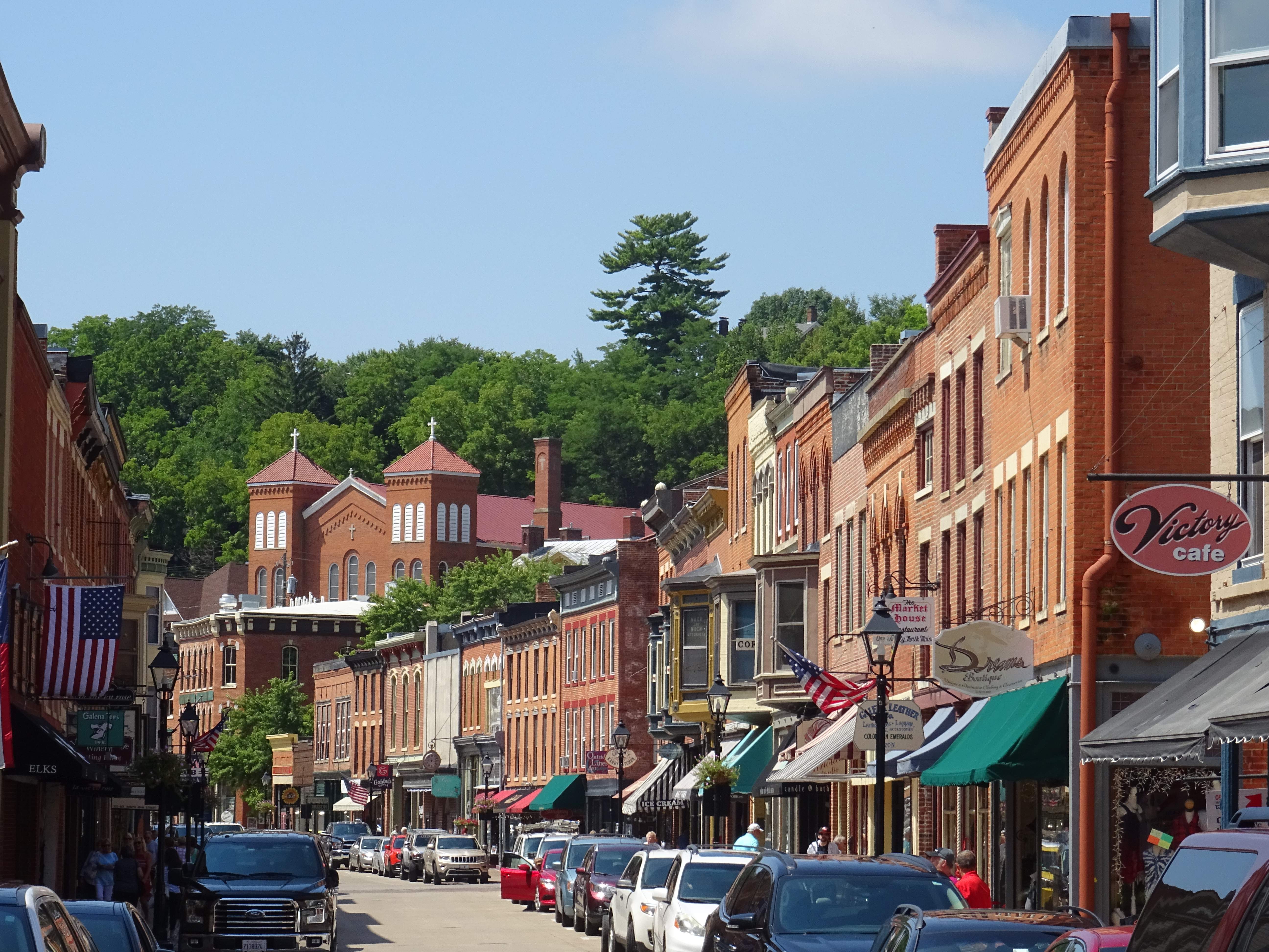 Looking west on Main Street, Galena, Illinois, United States.